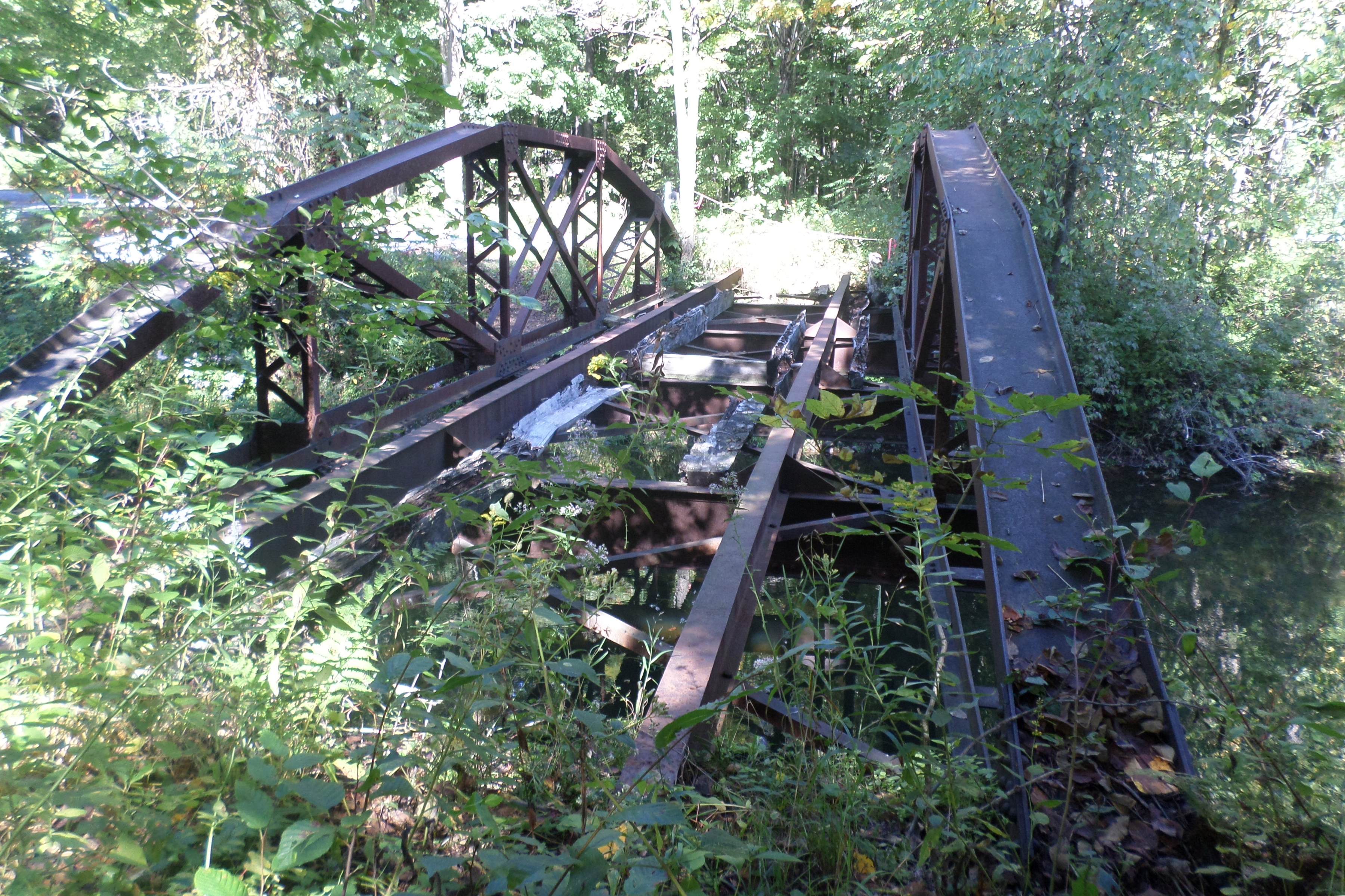 Possibly the last surviving bridge of the Kaydeross Railroad (Ballston Terminal Railroad) crossing the Kayaderosseras Creek near Rock City Falls, New York